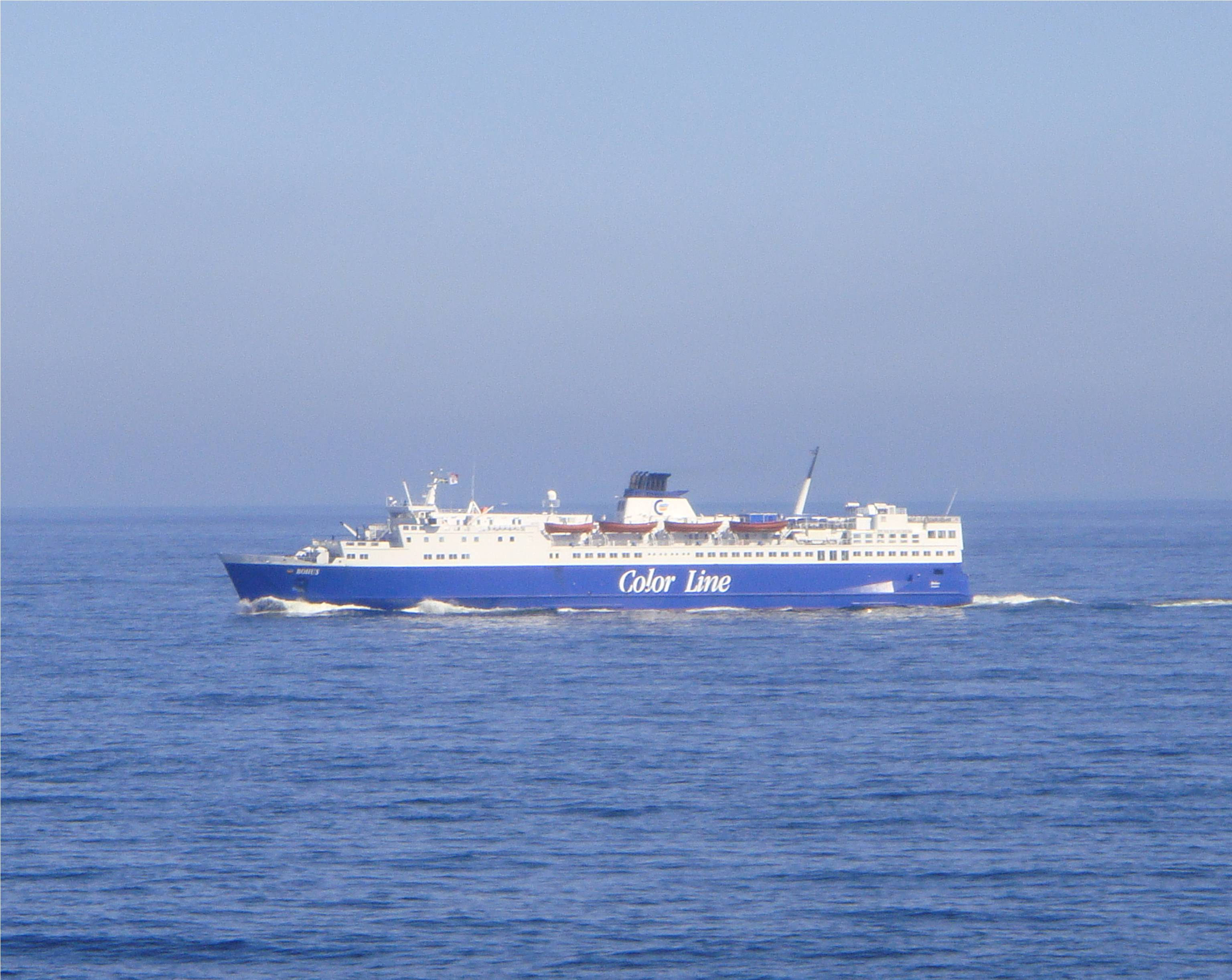 M/S Bohus. Picture taken from M/S Color Viking